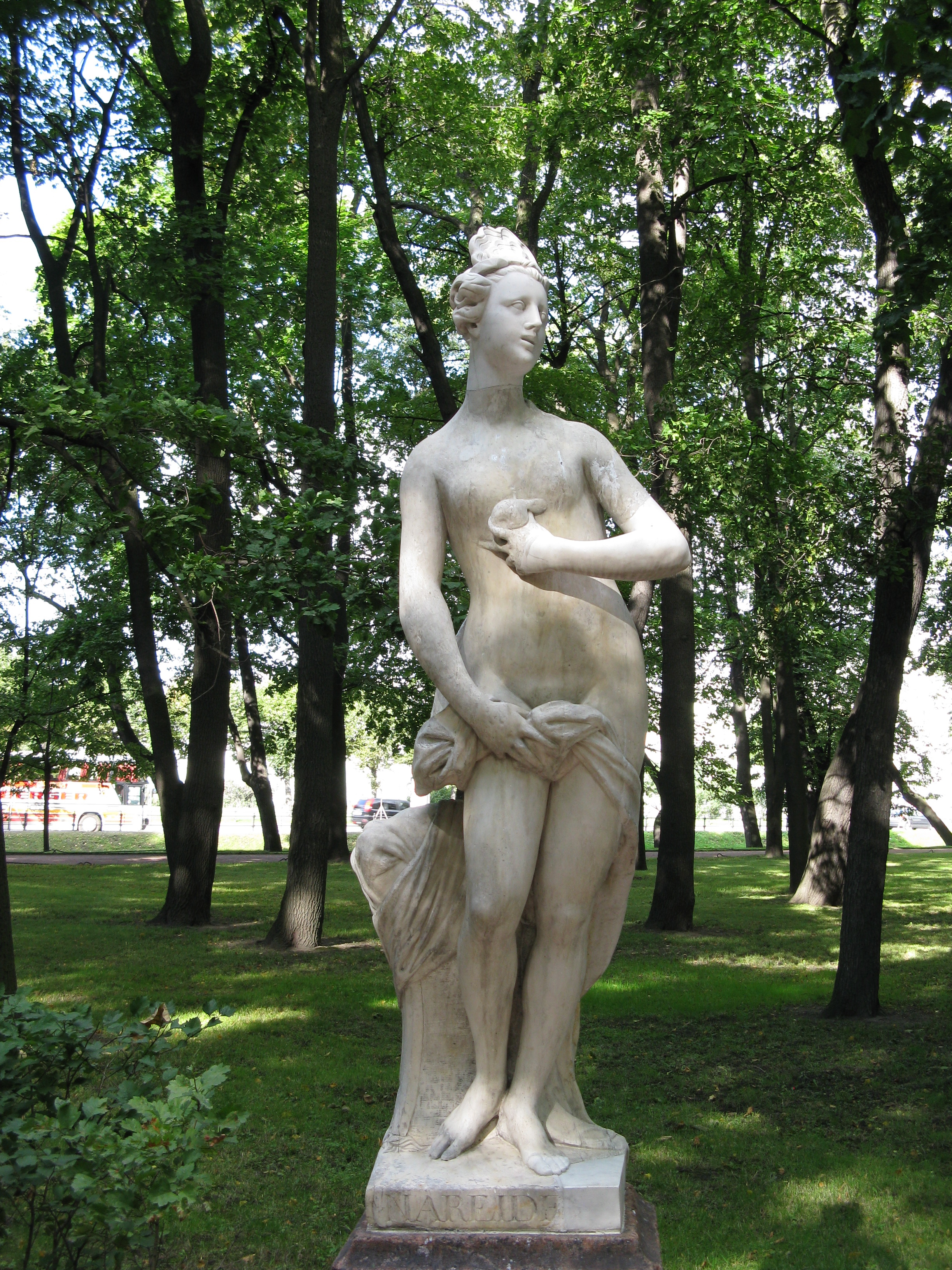 Nereide by Antonio Corradini at Summer Garden